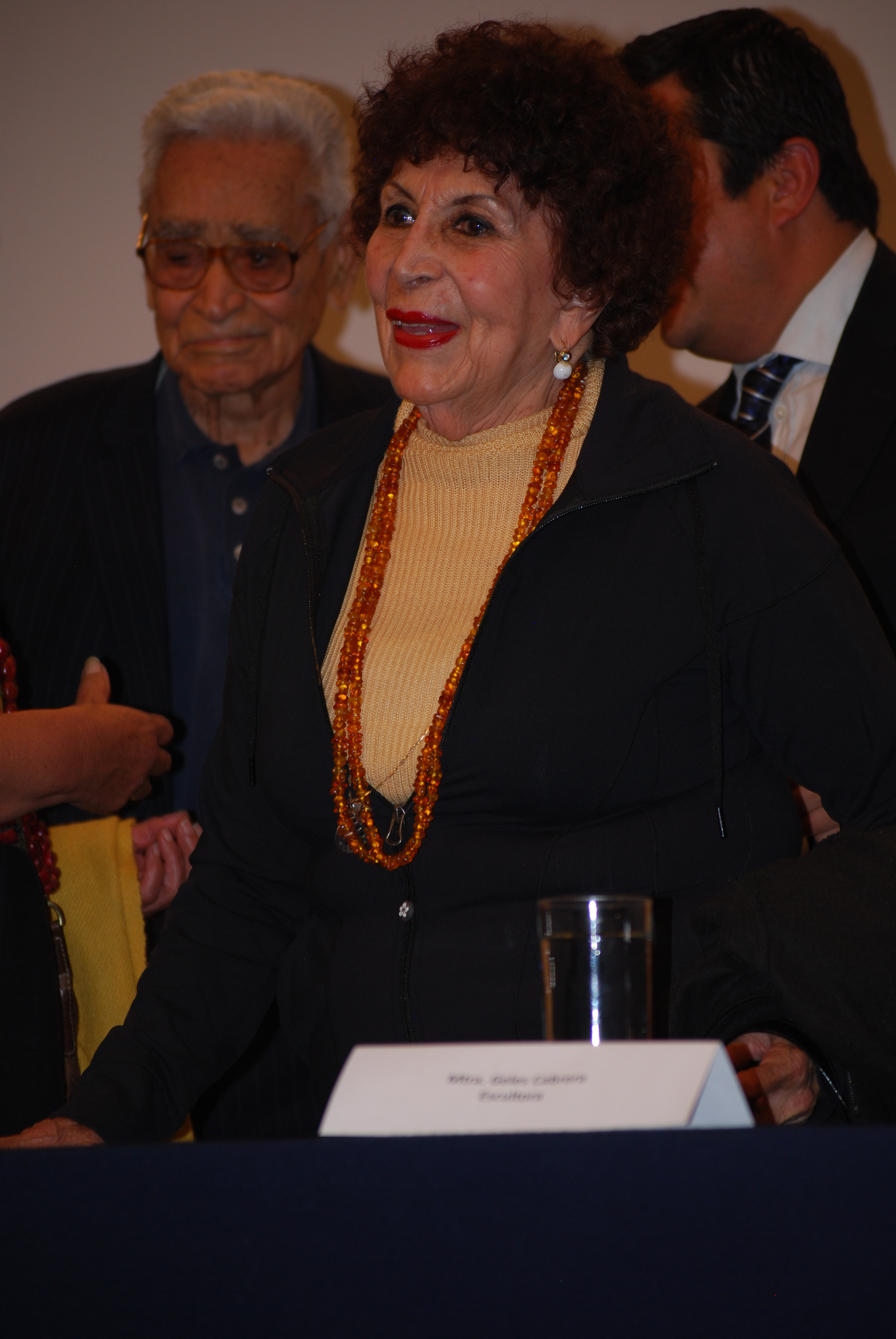 Geles Cabrera at the presentation of Tesoros del Registro Civil Salon de la Plastica Mexicana at the Palacio de Bellas Artes in Mexico City